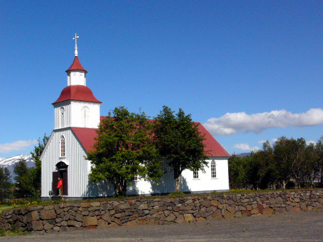 Church in Möðrvellir. The birthplace of the writer Jón Sveinsson.